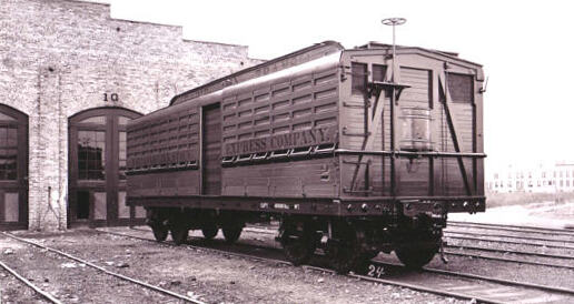 A Pullman Co. Livestock Car from the late 1800s. Pullman Neg. 288. img URL